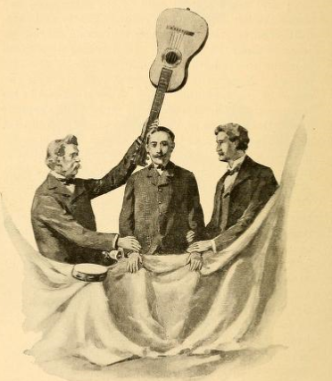 Sketch showing the trick of the Eddy Brothers